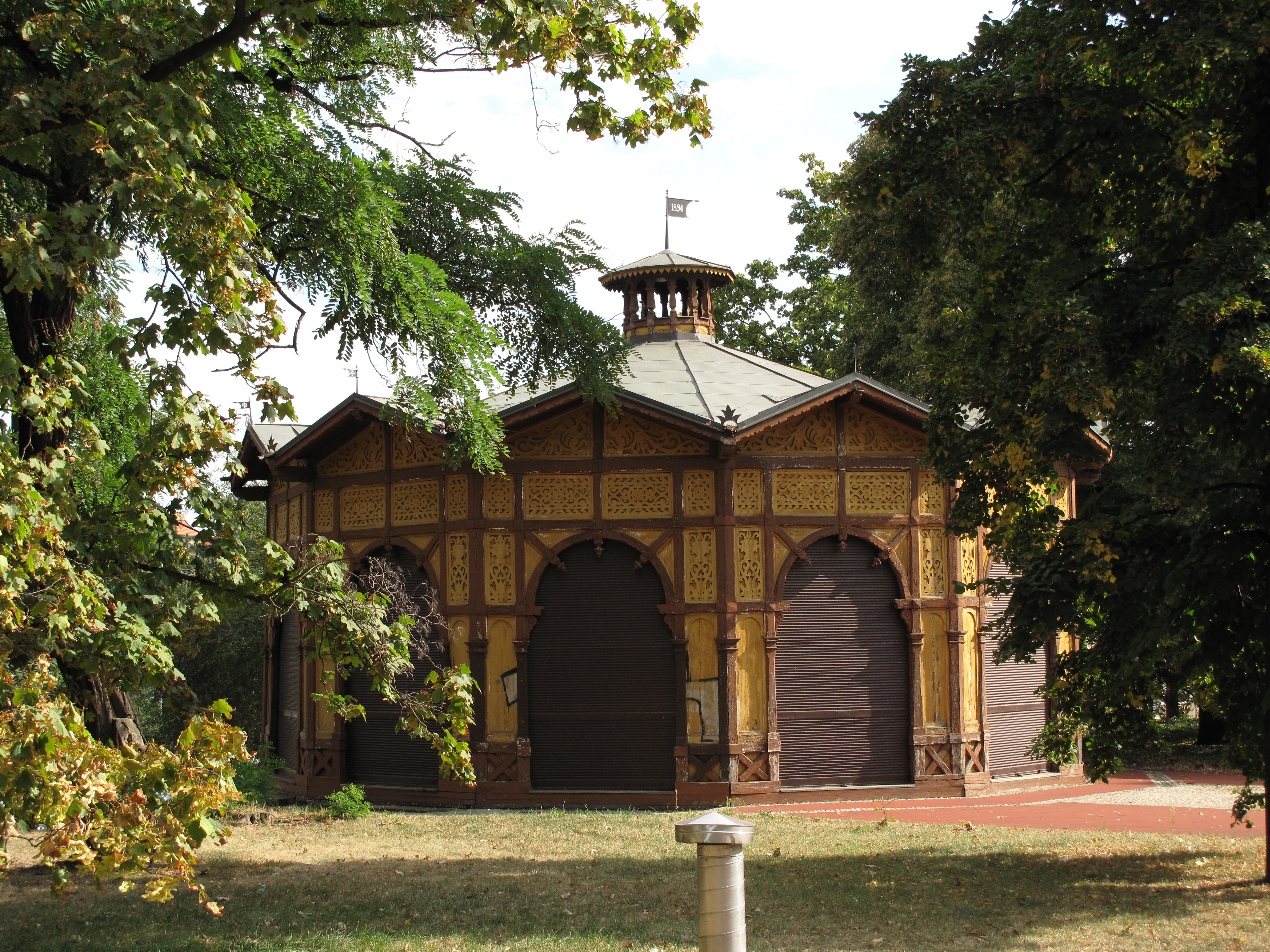 Letná roundabout from Letná park, Prague, Czech Republic.